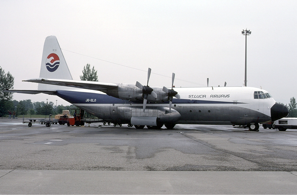 St. Lucia Airways Lockheed L-100-20 Hercules (L-382F)